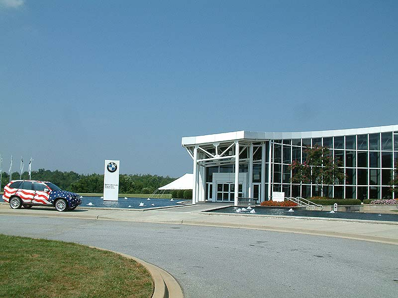 BMW manufucturing plant of Spartanburg, South Carolina, USA